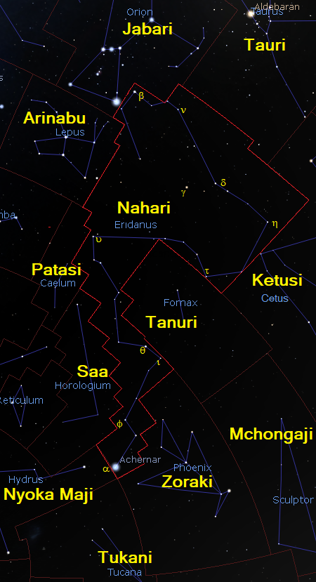 Constellation Eridanus as seen from Tanzania, Swahili labelled Kiswahili: Kundinyota Nahari (Eridanus) jinsi inavyoonekana kutoka Tanzania, majina kwa Kiswahili